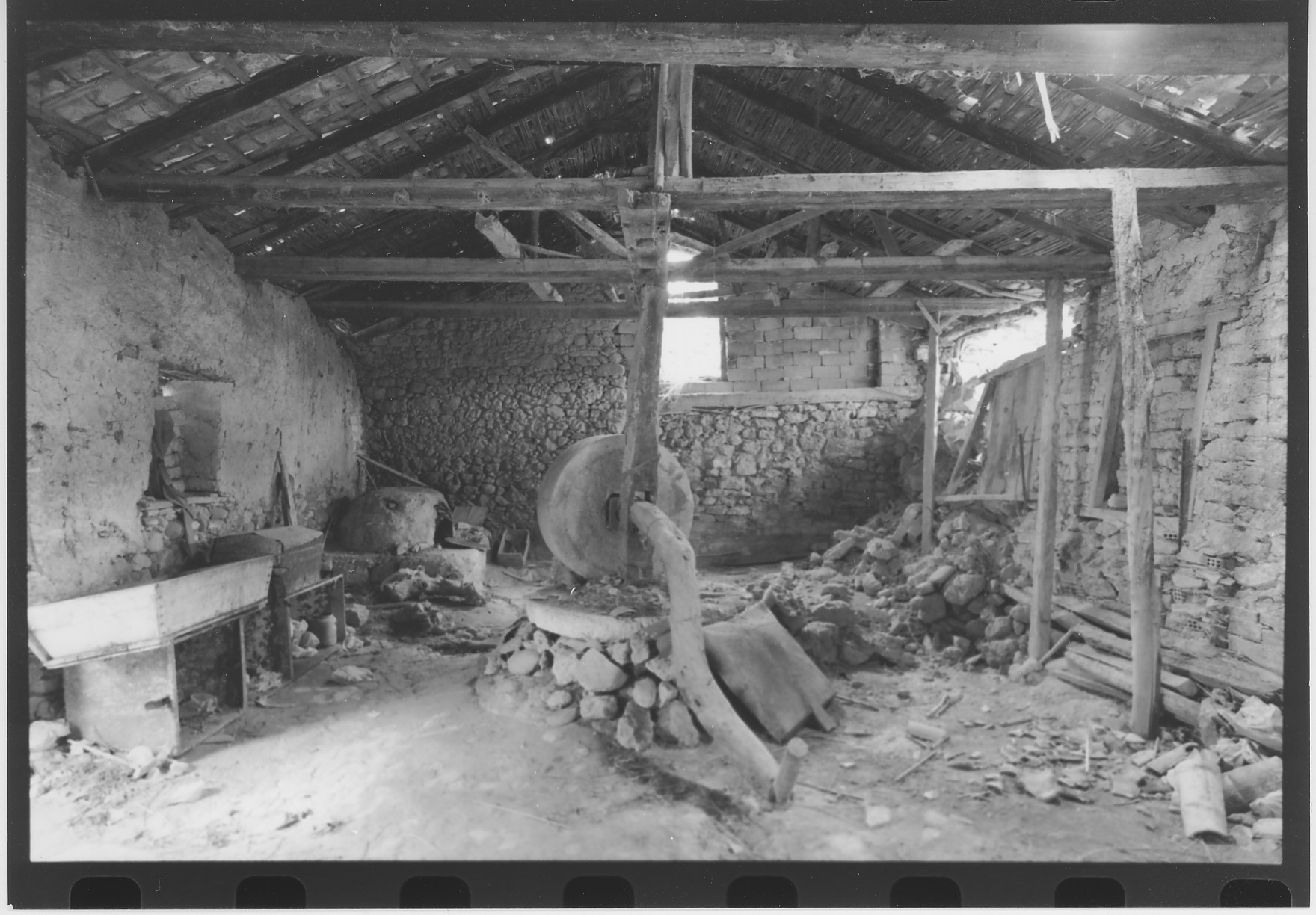 The interior of an abandoned horse-driven olive mill in the Vounaria village, Messinia, Greece, early 20th century. Citation: Giannopoulou Mimika, "The research project for the olive culture in the Messinia prefecture", International Conference "The olive tree and olive oil from antiquity till today", Athens, October 1 & 2, 1999. Published by The Academia of Athens, 2003, pp. 293-295, photo No. 3, p. 470.